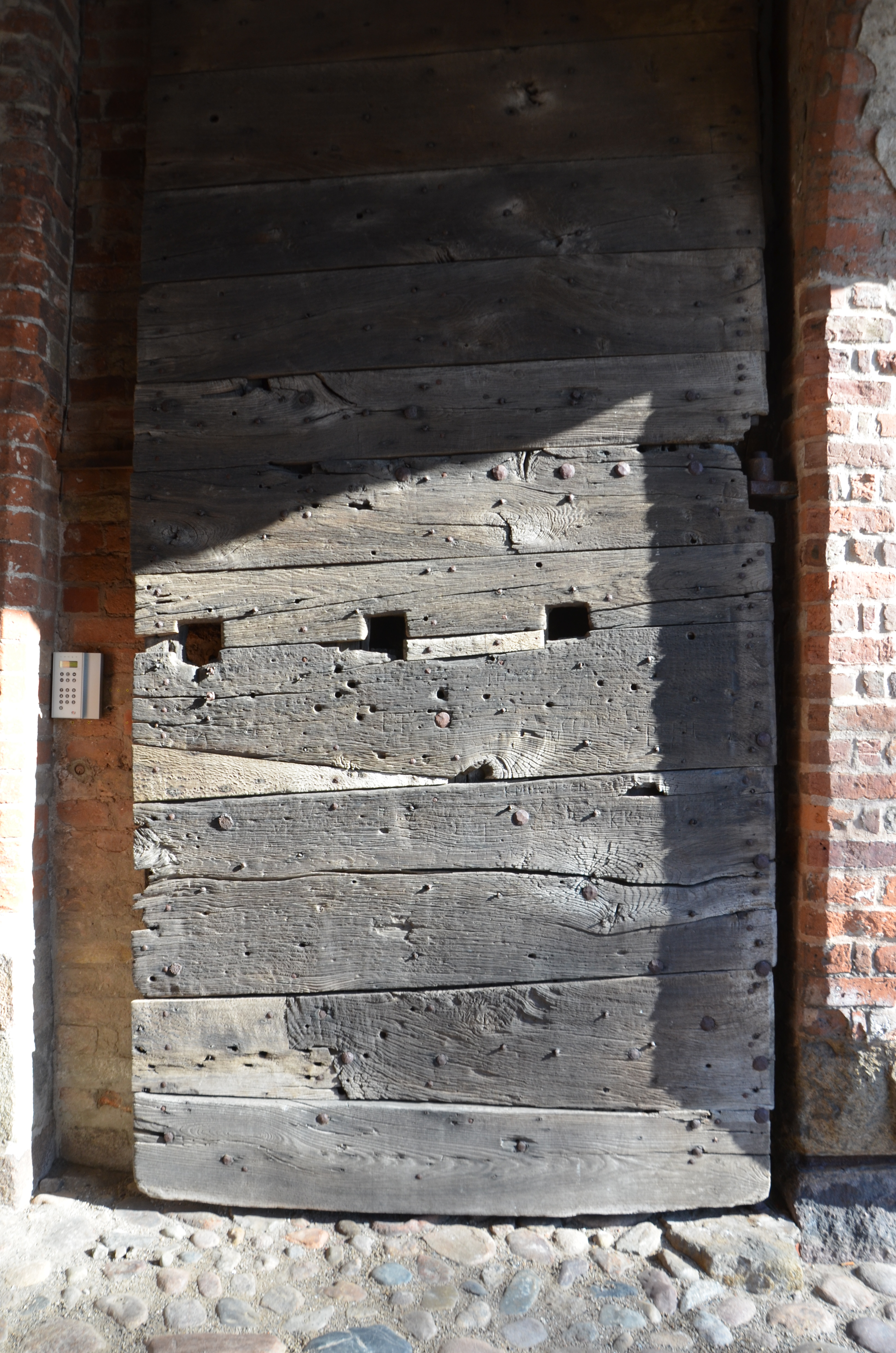 Entrance door, Koldinghus